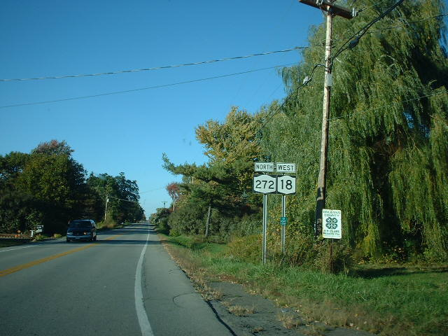 Westbound on New York State Route 18 and northbound on New York State Route 272 on the Orleans–Monroe County line.